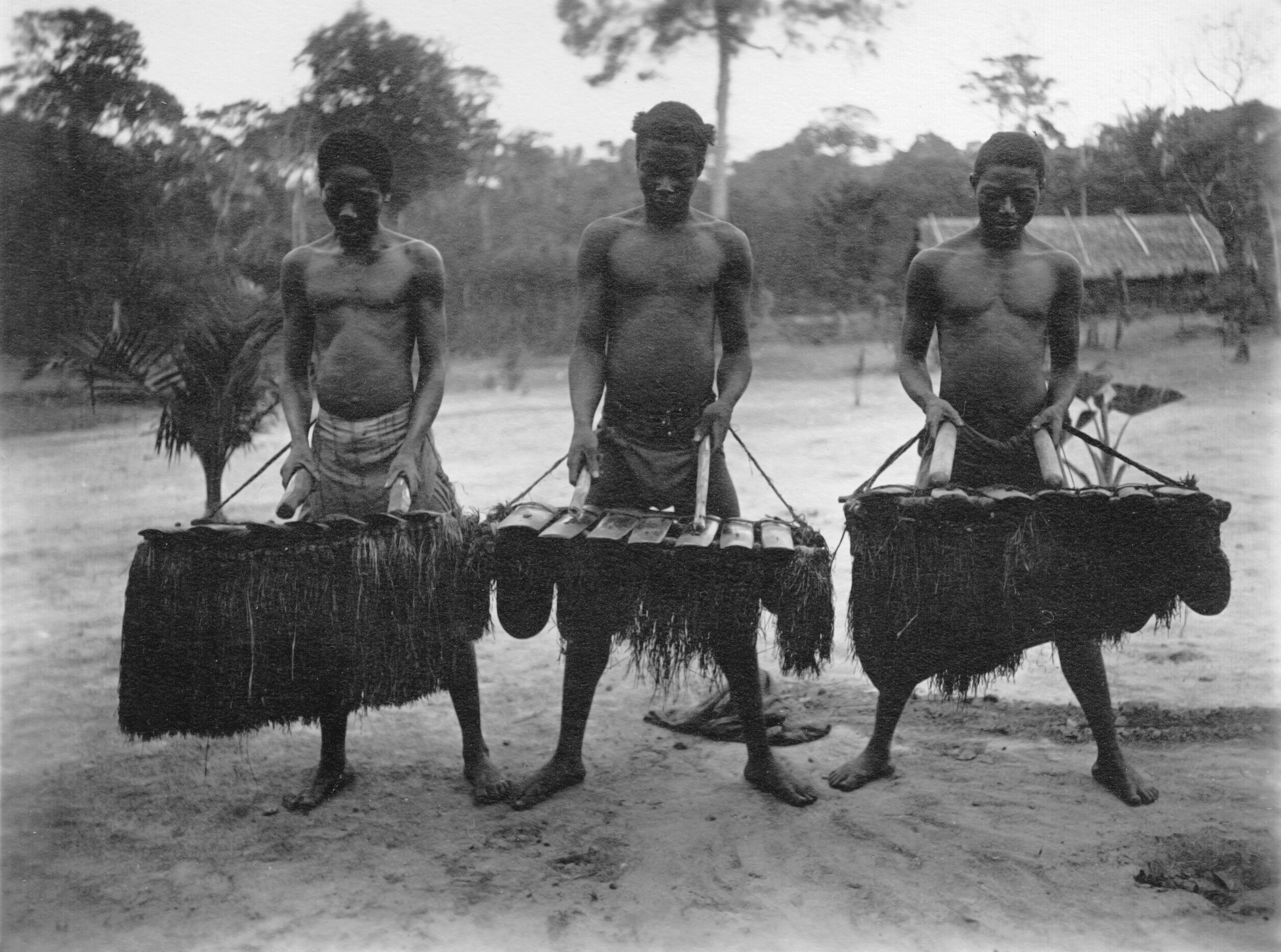 Xylophones, Cameroon, ~1914. Someone had recently changed the description from "xylophones" to "balafones". An ethnomusicologist specializing in African music confirmed that these are xylophones!